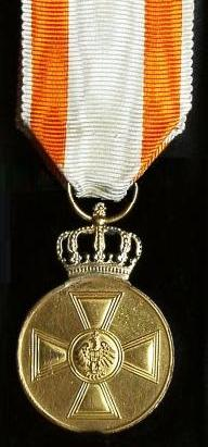 Order of the Red Eagle Meadl for enlisted men.